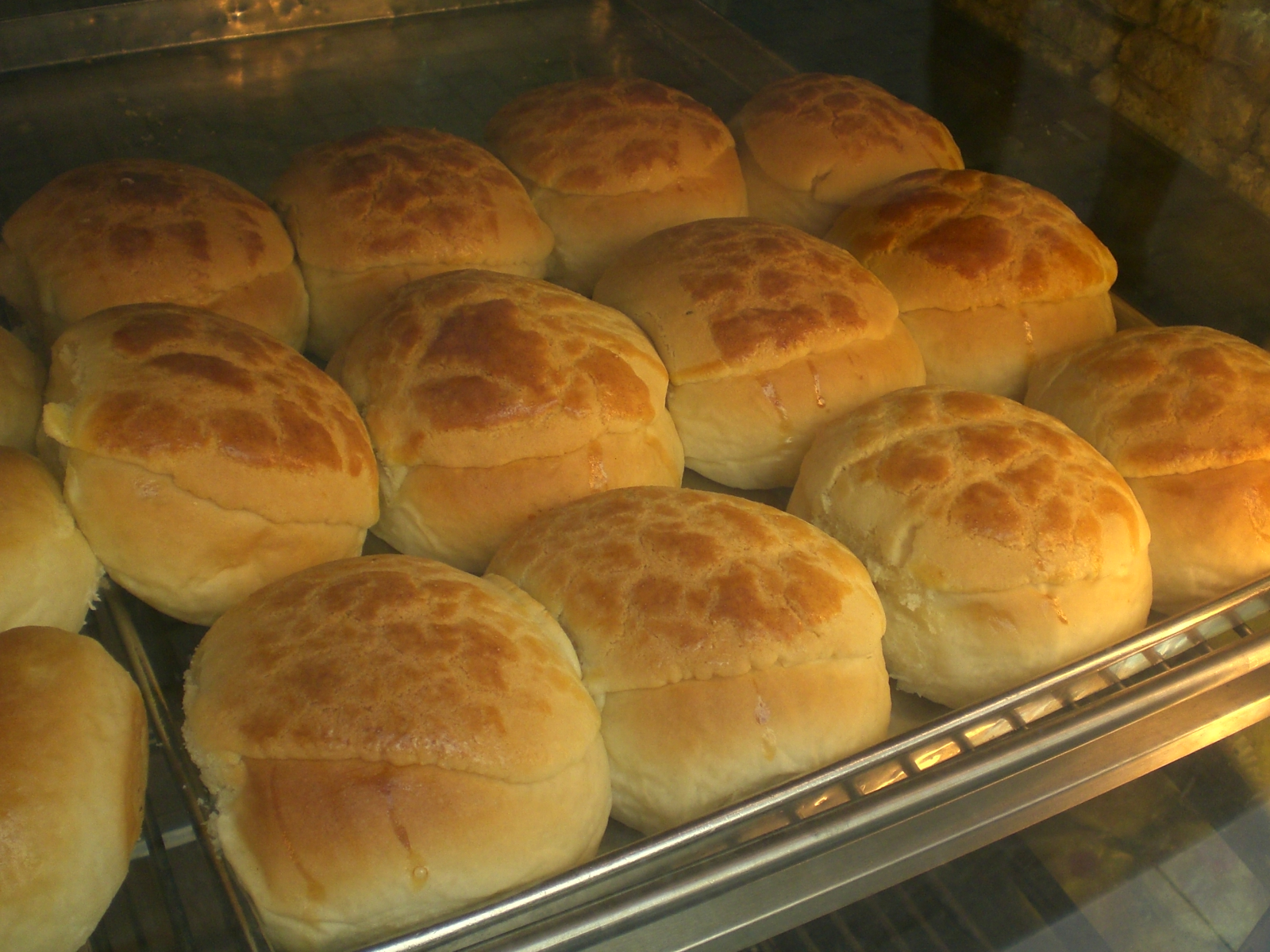 灣仔軒尼詩道zh:檀島咖啡餅店 - 菠蘿包